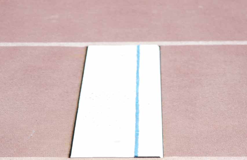 long jump